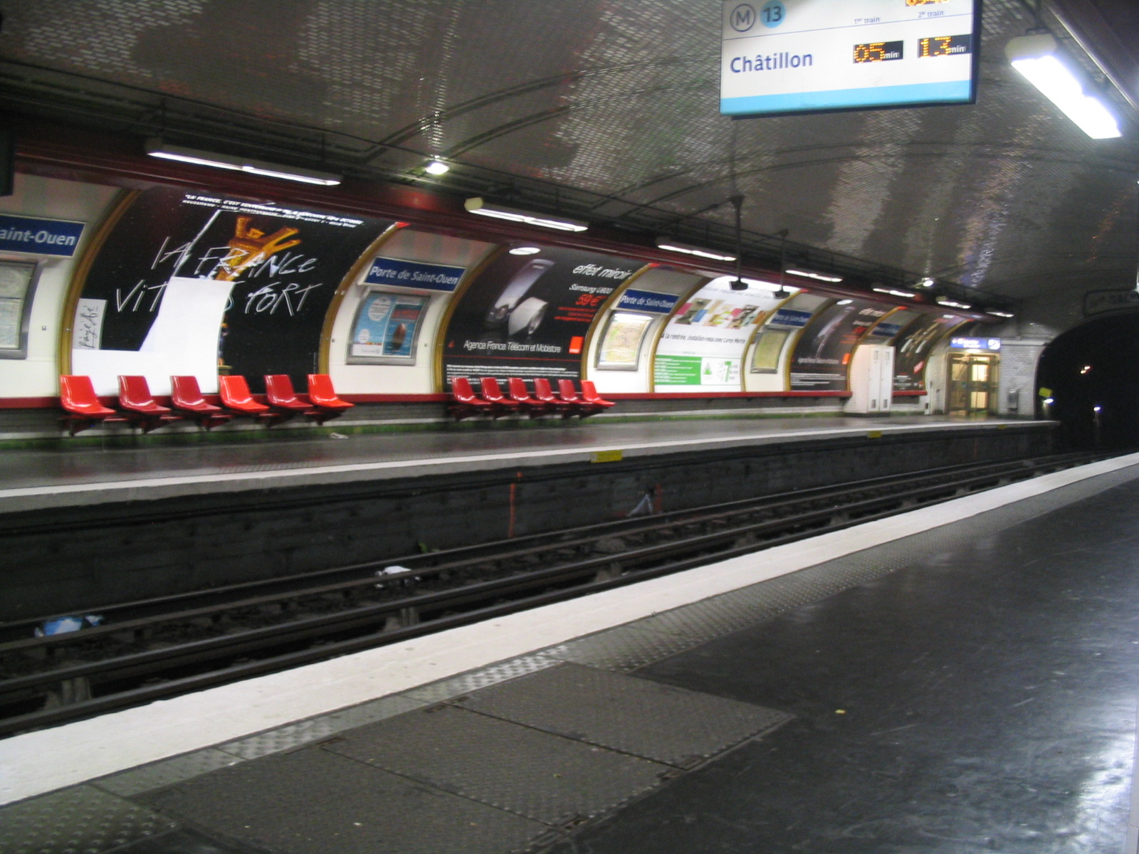 The Porte de Saint-Ouen station on the Paris Métro.